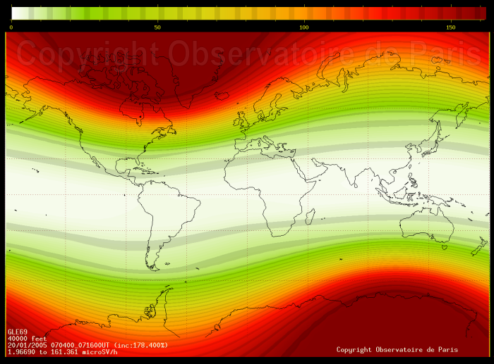 World map of the estimated hourly radiation dose at 40000 feet during jan 20th 2005 ground level event maximum.